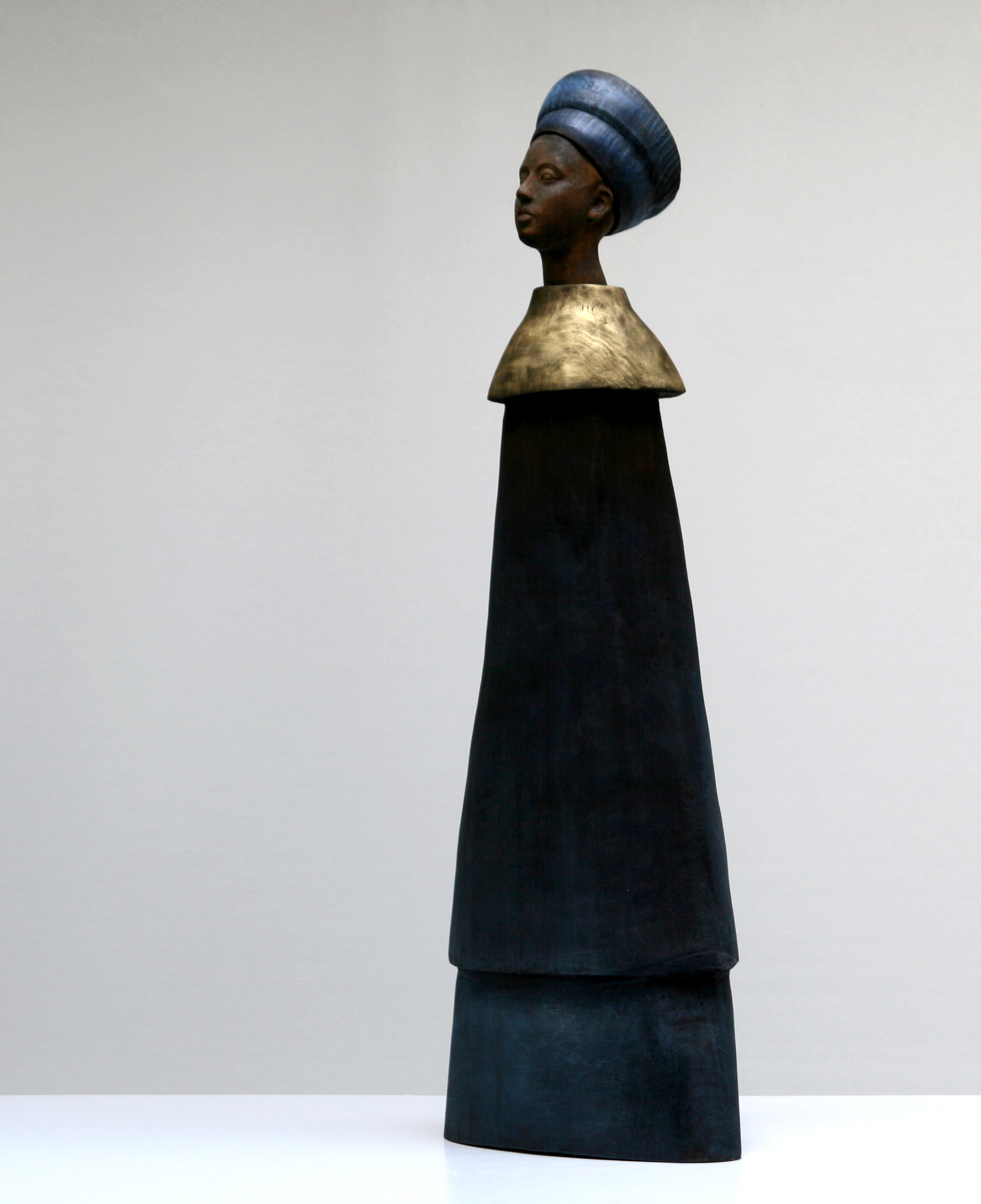 Wood sculpture Angelina Engelsen